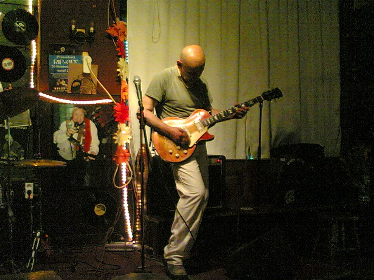 Eelco Gelling (former of Cuby and the Blizzards) at the last opening night of Café de Beukelsbrug in Rotterdam.